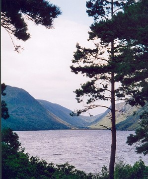 Scan of an original photograph taken by me at Gleann Bheatha in 2001.